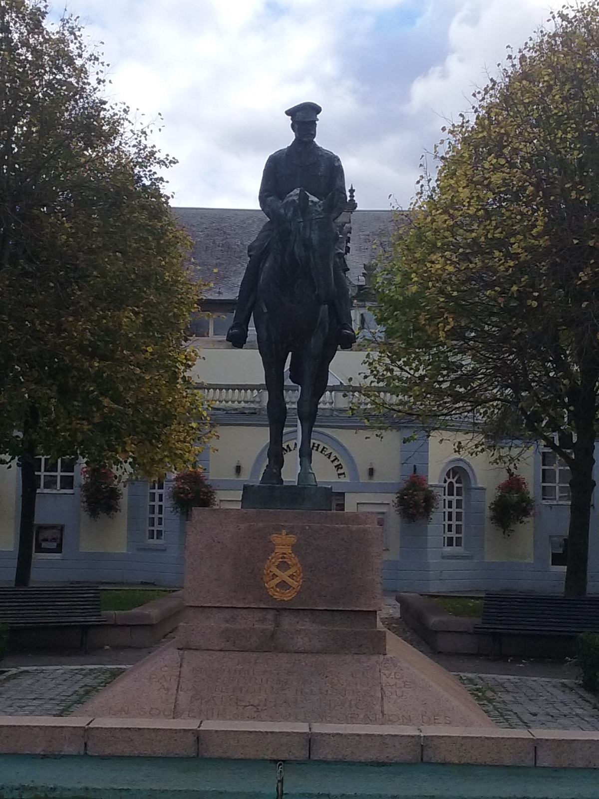 The statue of Field Marshall Haig, outside the town hall in Montreuil.